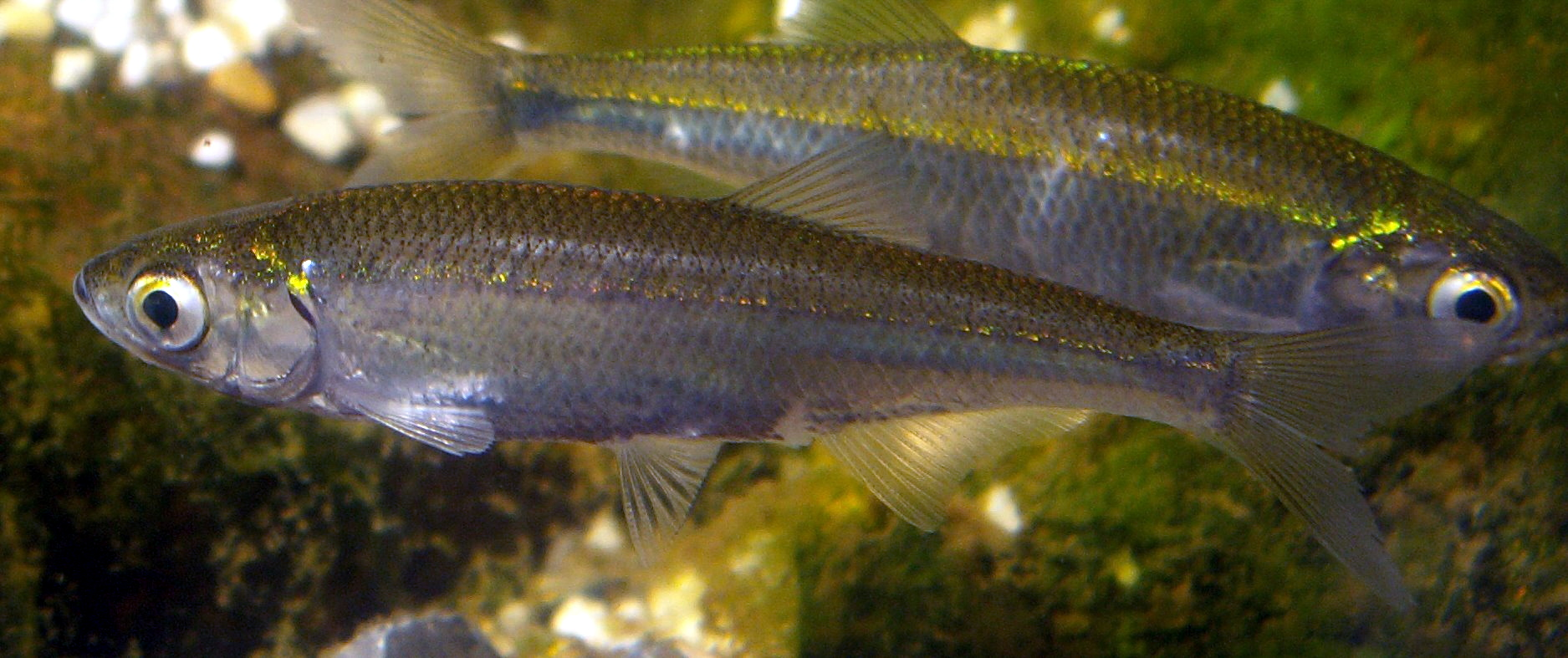 Female Leucaspius delineatus cropped, Hoensbroek, the Netherlands